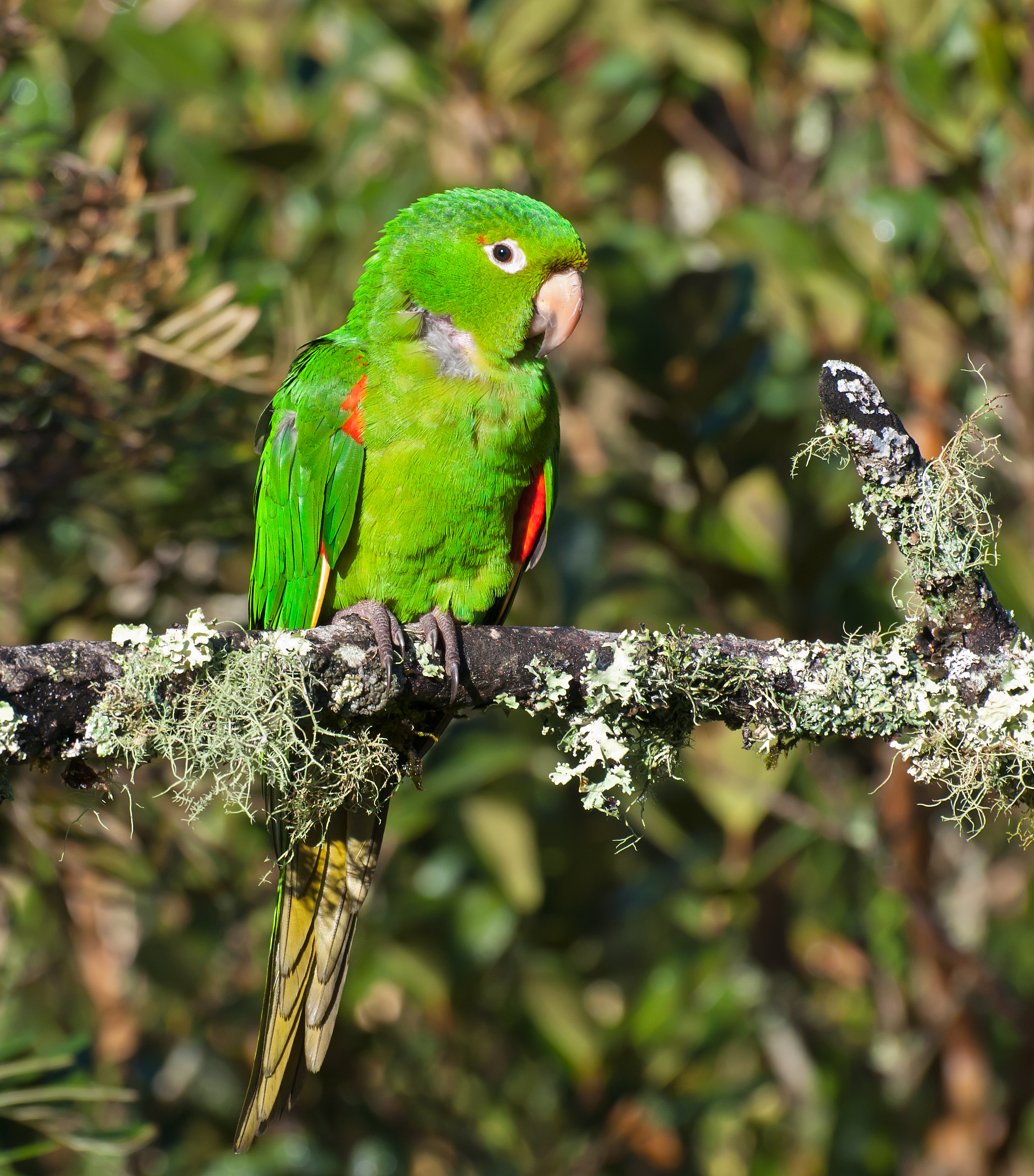 A White-eyed Parakeet in Reserva Guainumbi, São Luis do Paraitinga, São Paulo, Brazil.